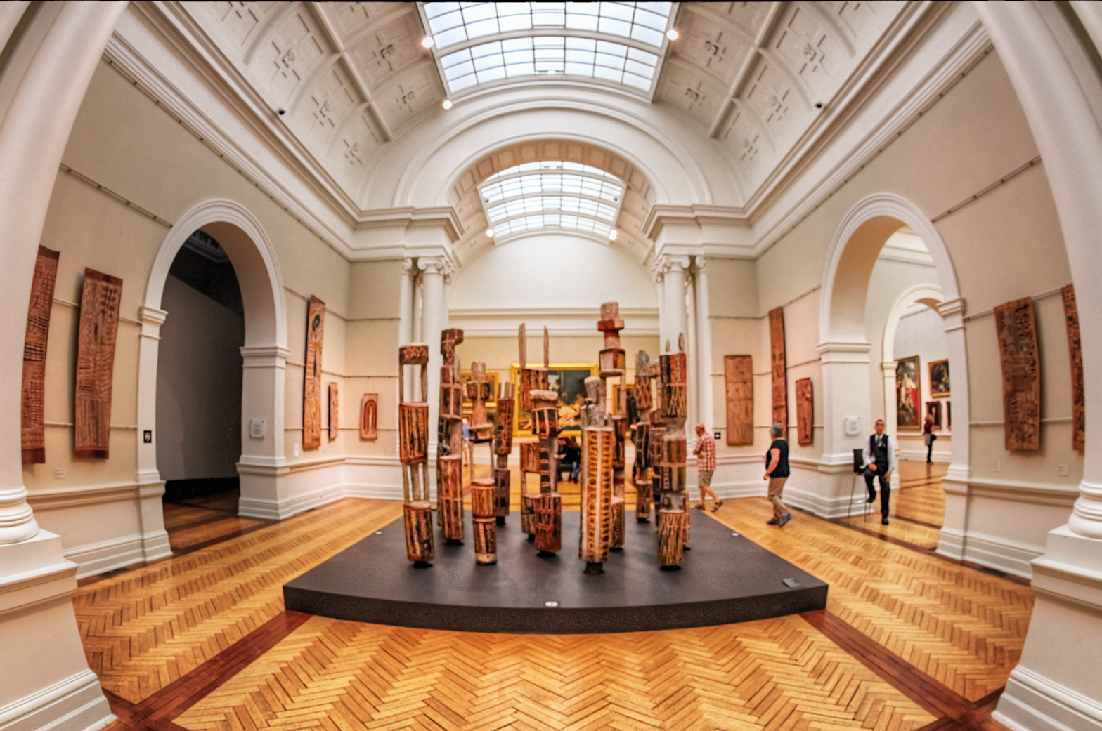 Art Gallery of New South Wales, Sydney